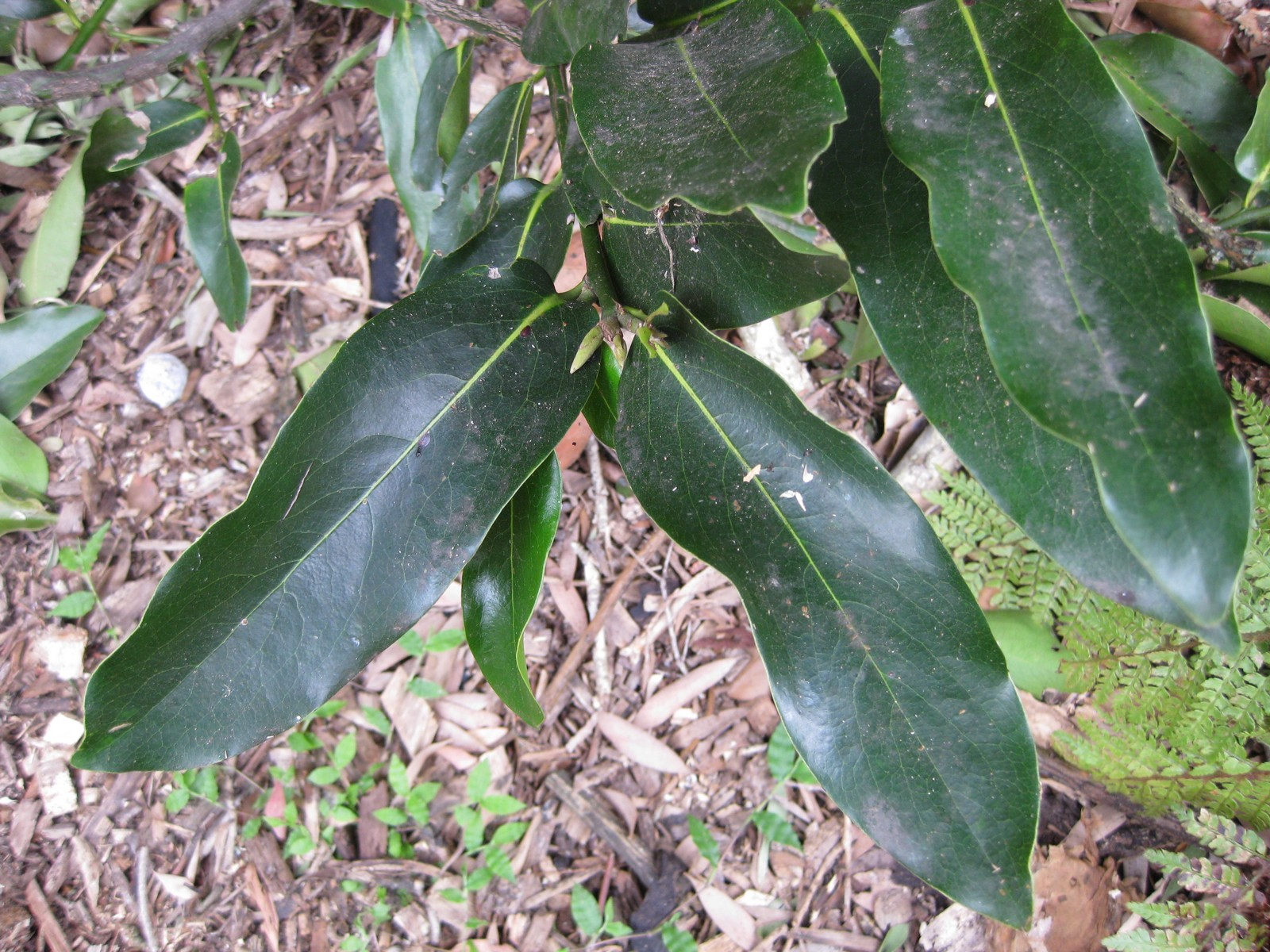 Photographed at the Royal Botanic Gardens Sydney (Australia) in January